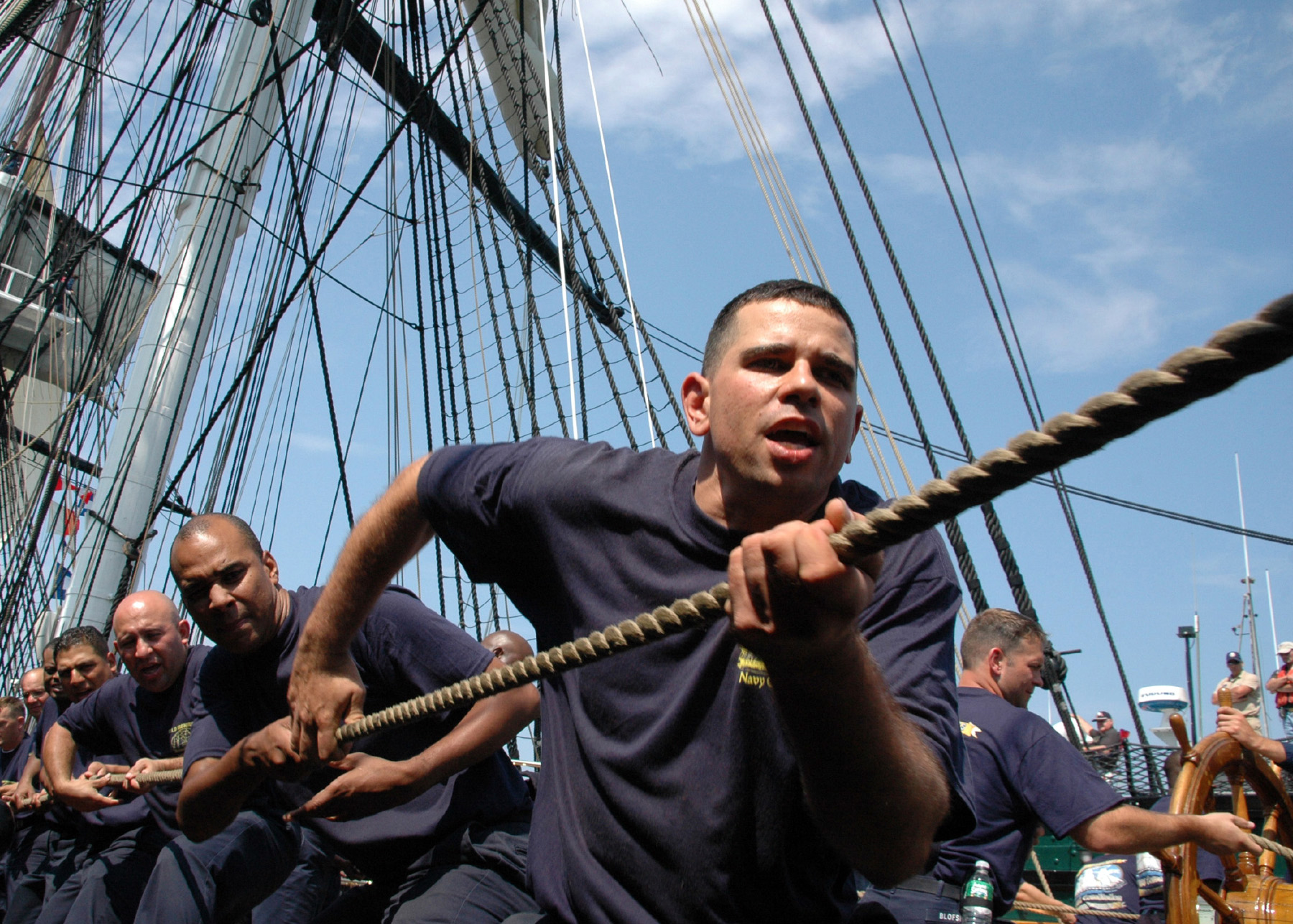 BOSTON (Aug. 24, 2007) - Chief petty officer (CPO) selectees heave around on the halyard to raise USS Constitution’s mizzenmast topsail yard while underway. Sailing under her own power for the first time in 2007, USS Constitution made five knots using six sails manned by more than 150 CPO selectees. At 209 years old, USS Constitution is the oldest commissioned warship afloat in the world and is visited by nearly half-a-million tourists annually. U.S. Navy photo by Mass Communication Specialist 1st Class Eric Brown (RELEASED)